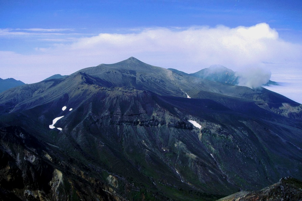 Mount Tokachi as seen from Mount Biei